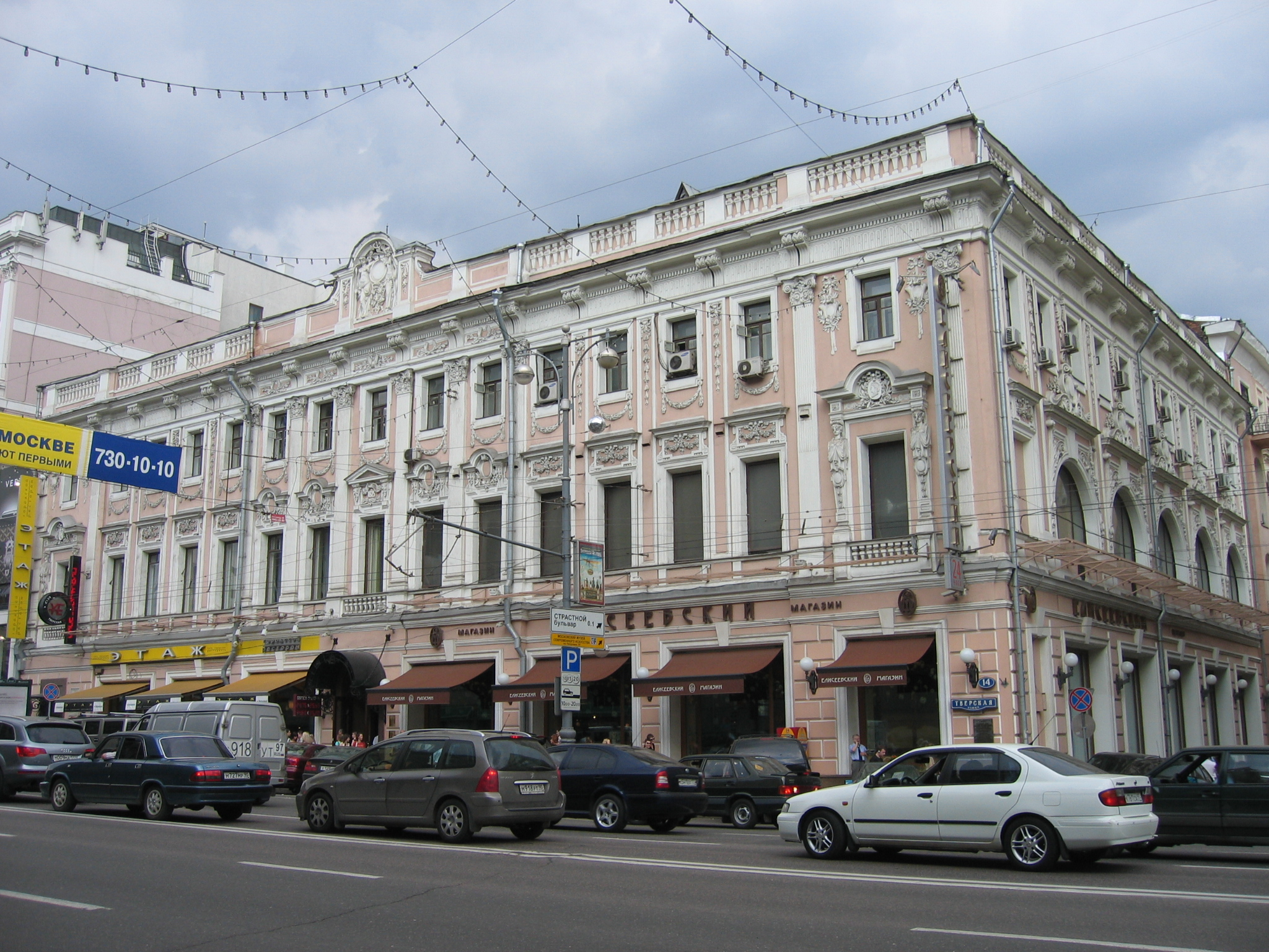 The Eliseev Shop on Tverskaya Street, Moscow